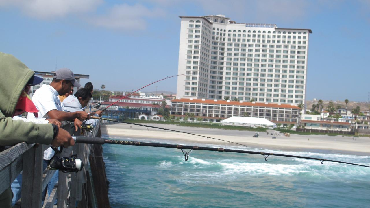 View of the Rosarito Beach Hotel and Pier